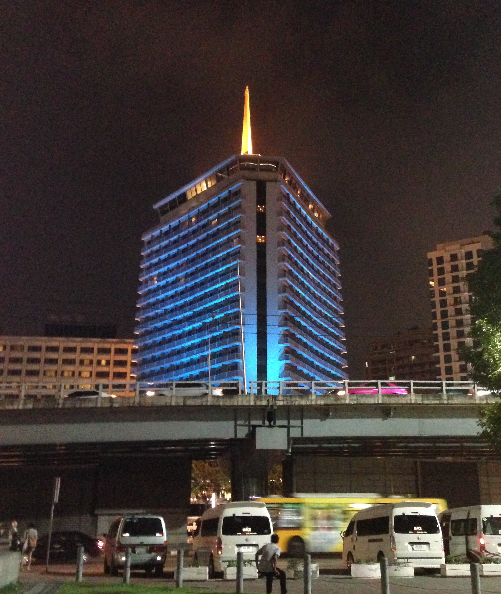 Dusit Thani Hotel in Bangkok.